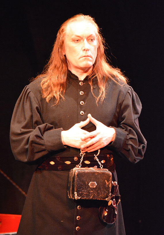 Helikon Opera